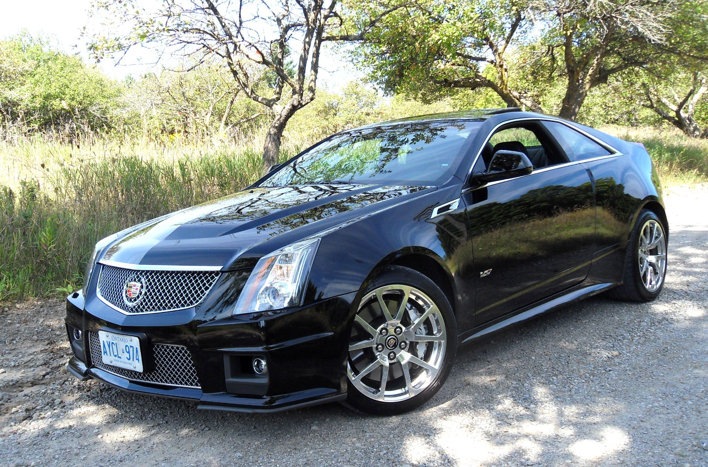 From Tino Rossini's Reviews.